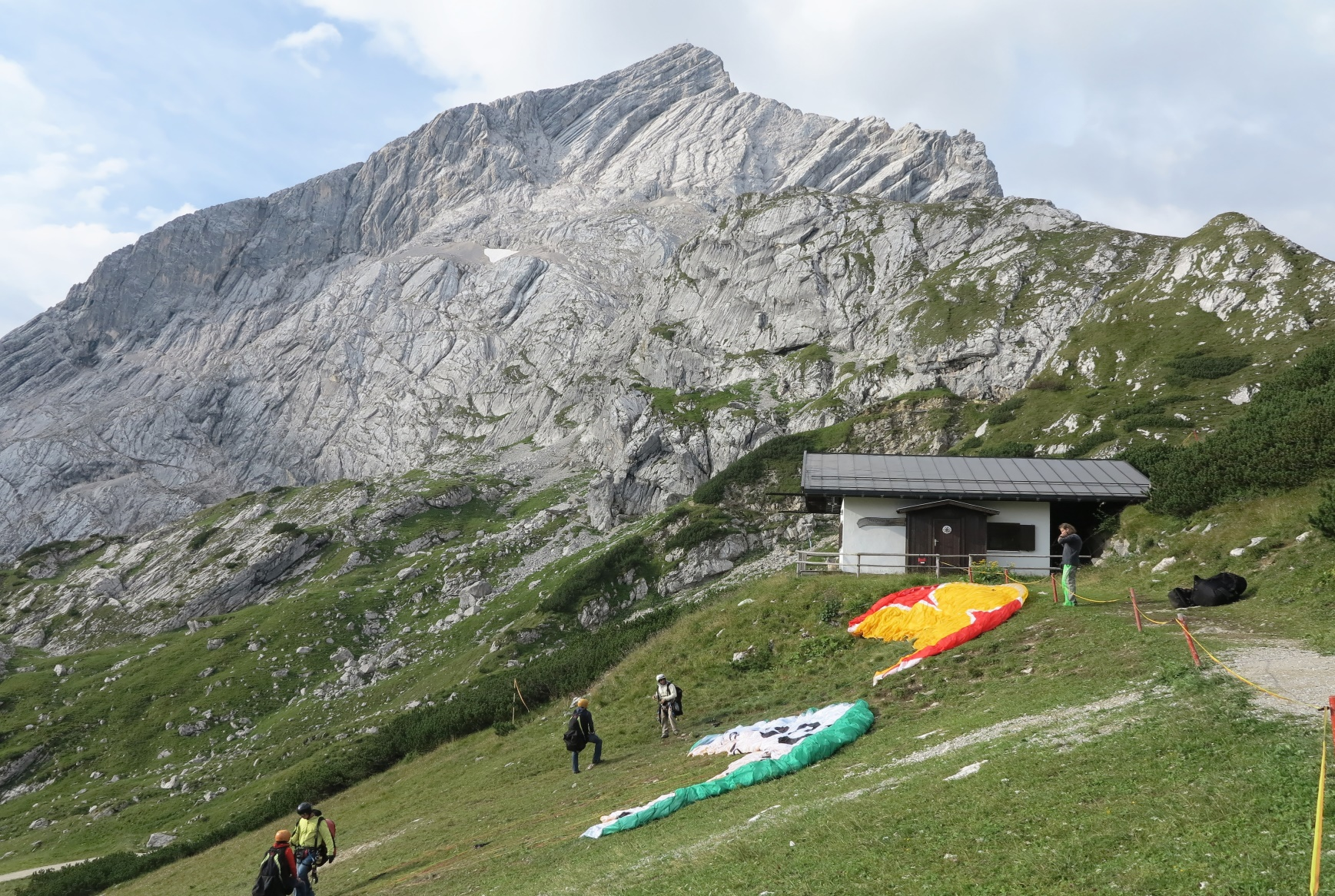 Mountain Alpspitze, seen from Osterfelderkopf